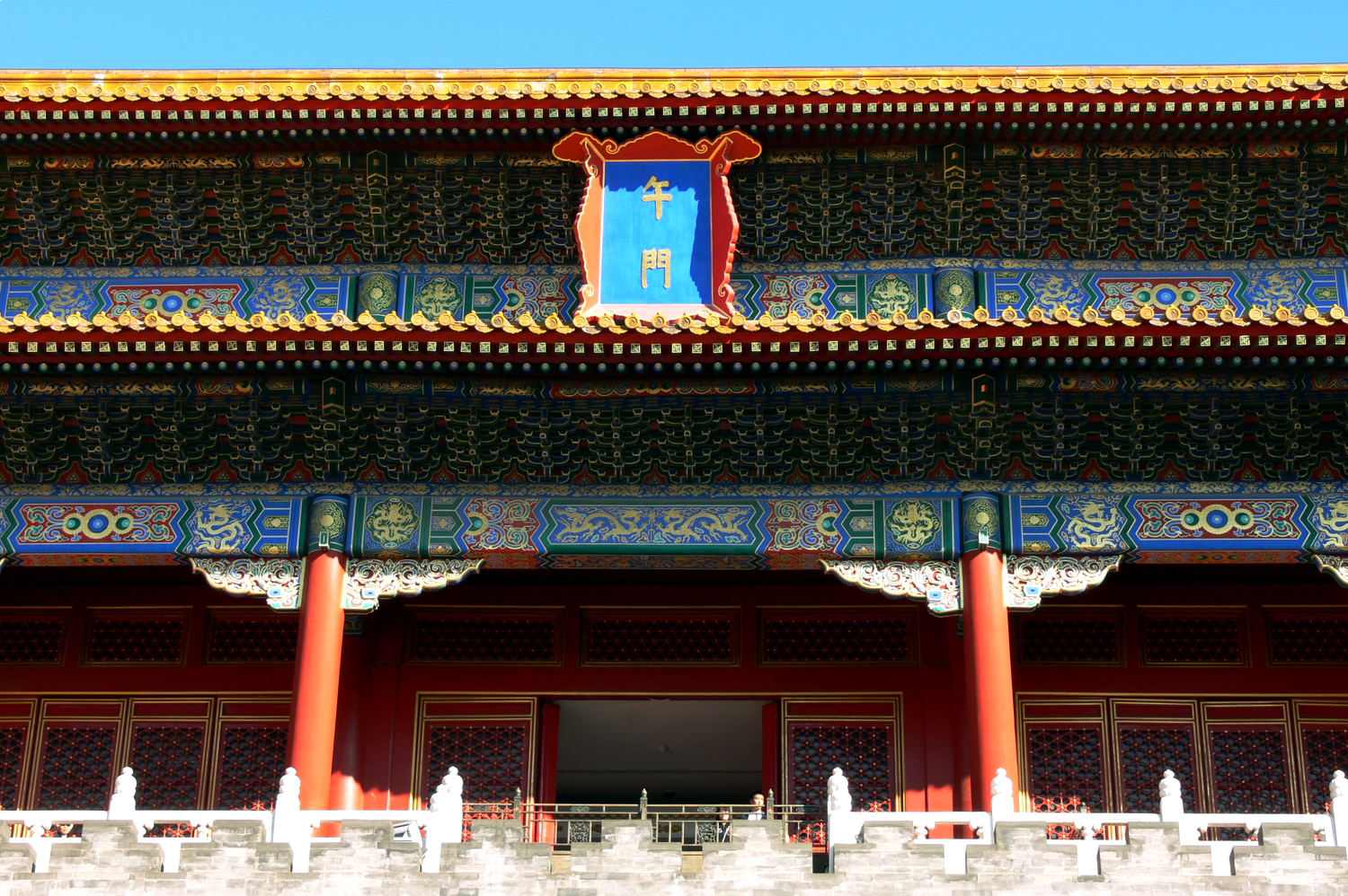 (view N) Meridan Gate upper lever